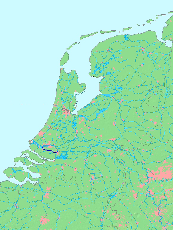 Location of a waterway (river/canal) in the Netherlends